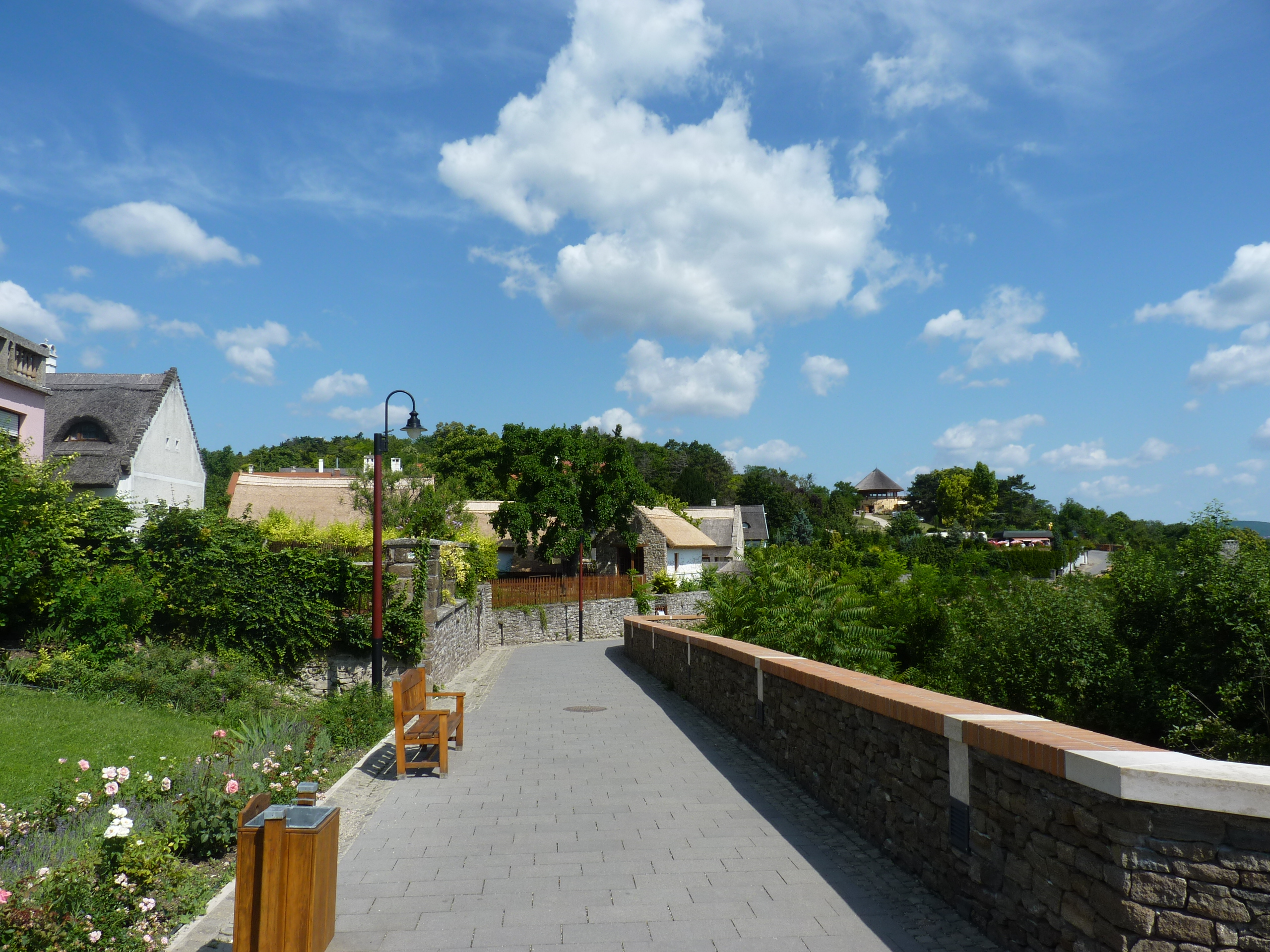 Pisky promenade, Tihany